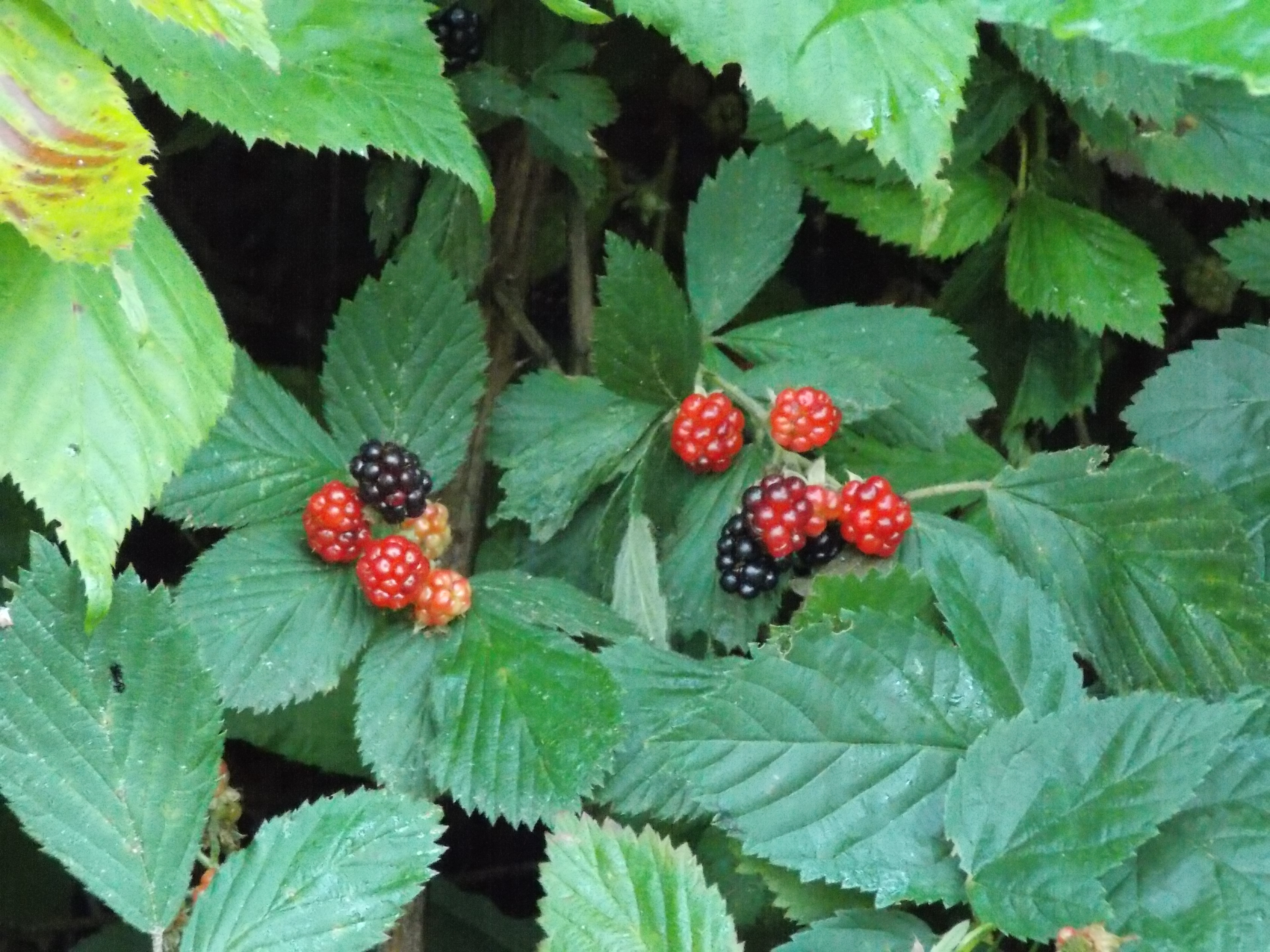 Wild Blackberries from Blacksburg, Virginia